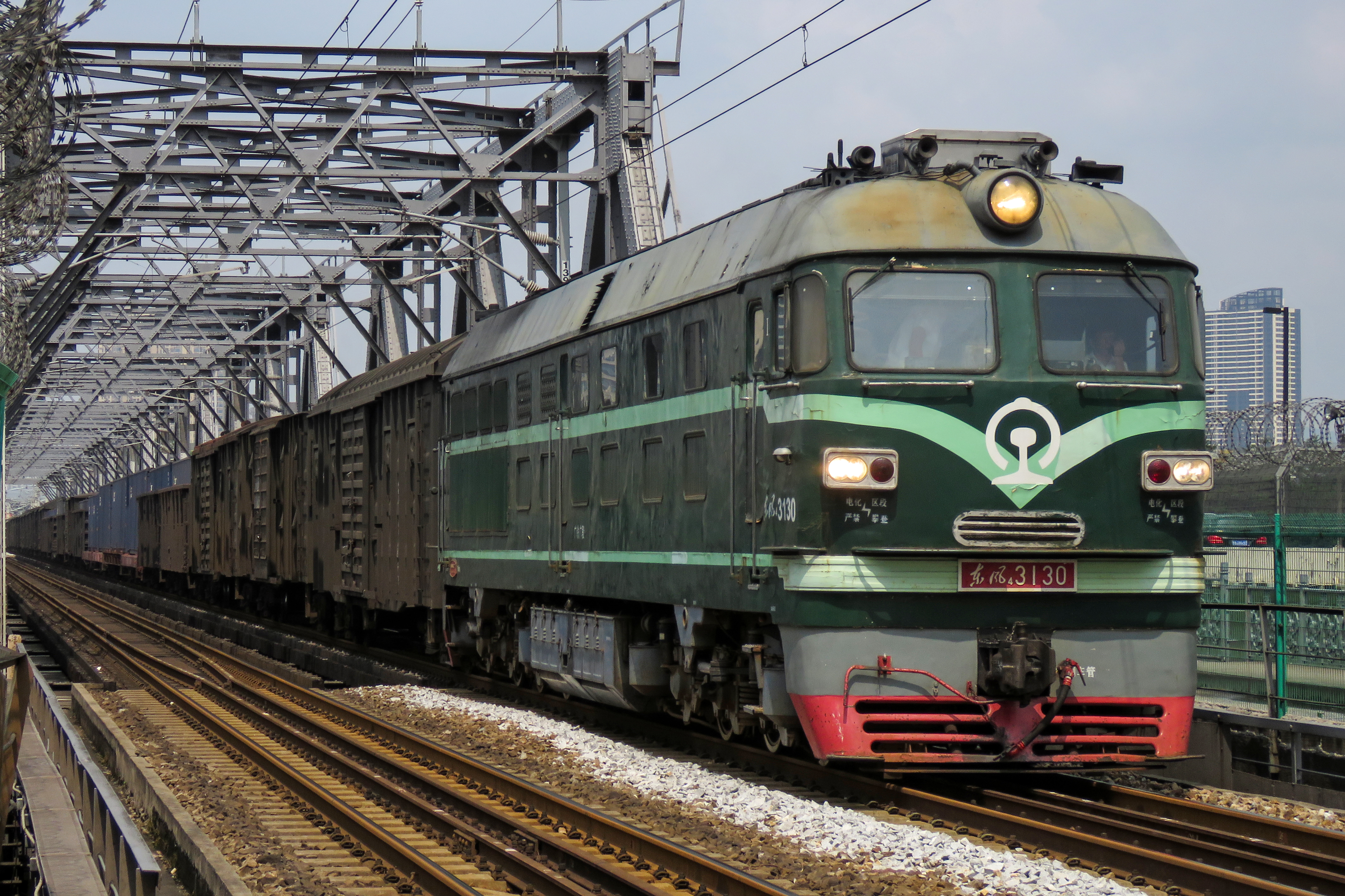 Happy Mid-Autumn Festival! Here comes a "open-mouth" DF4B, a really early and rare version of the DF4 series! Those Ziyang-built DF4(A)s only range from 3001 to 3042.